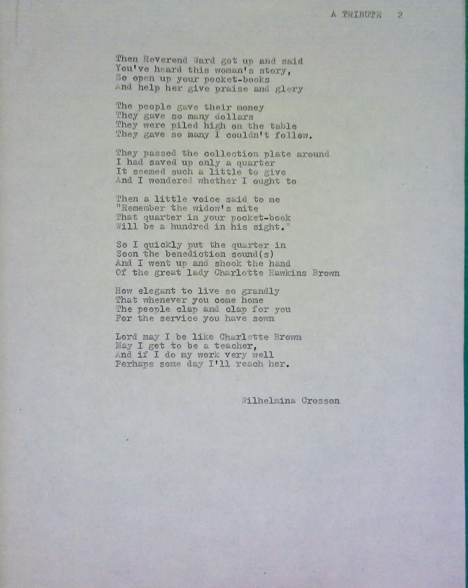 Folder 5, Charlotte Hawkins Brown Papers. By Francis Wilson, Wilhelmina Crosson (poem), Edna Arter, Lucinda Lancy Saunders, William Pickesn, Joseph V. Baker, 1916-1945